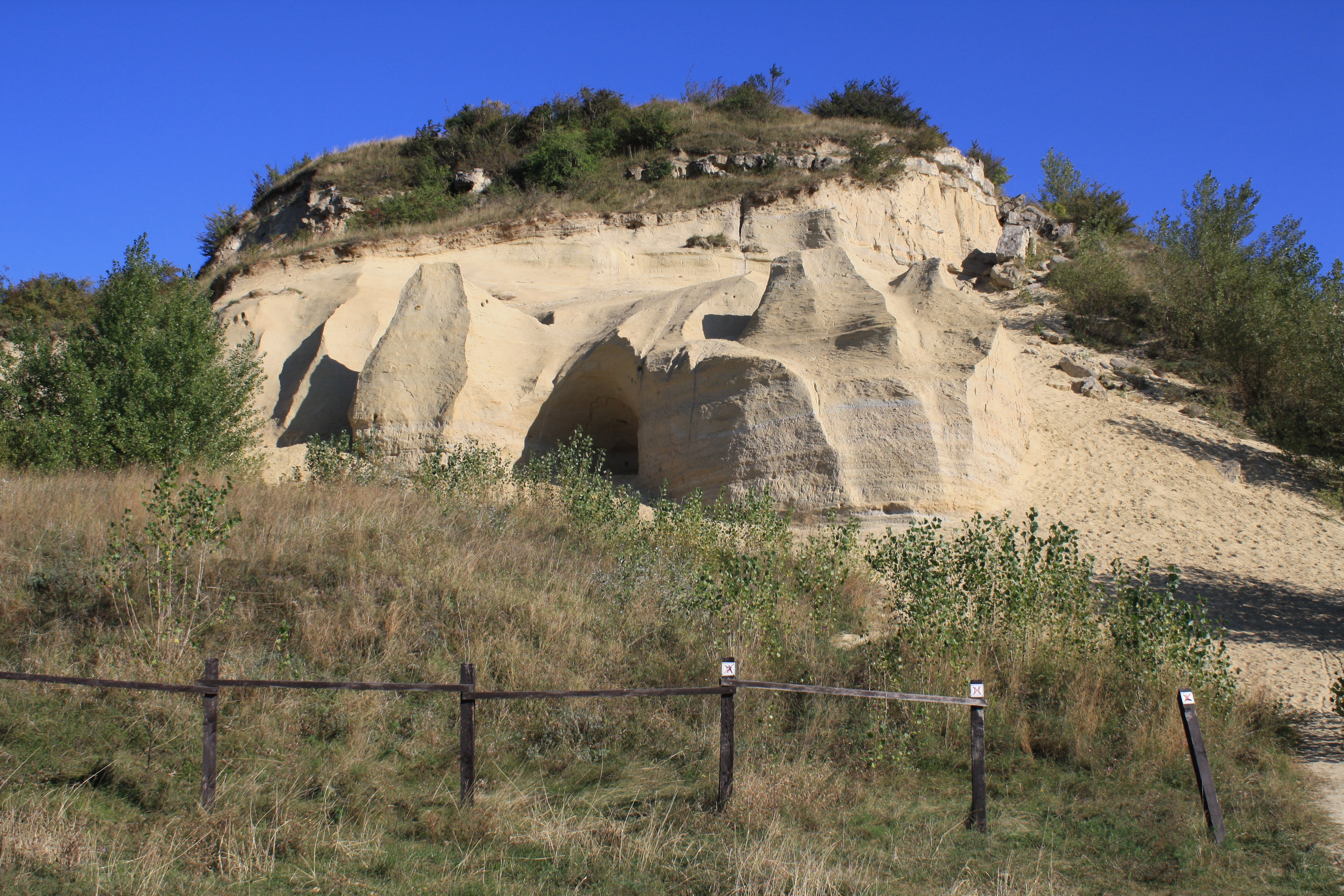 Sandberg in Devínska Nová Ves near Bratislava (Slovakia)